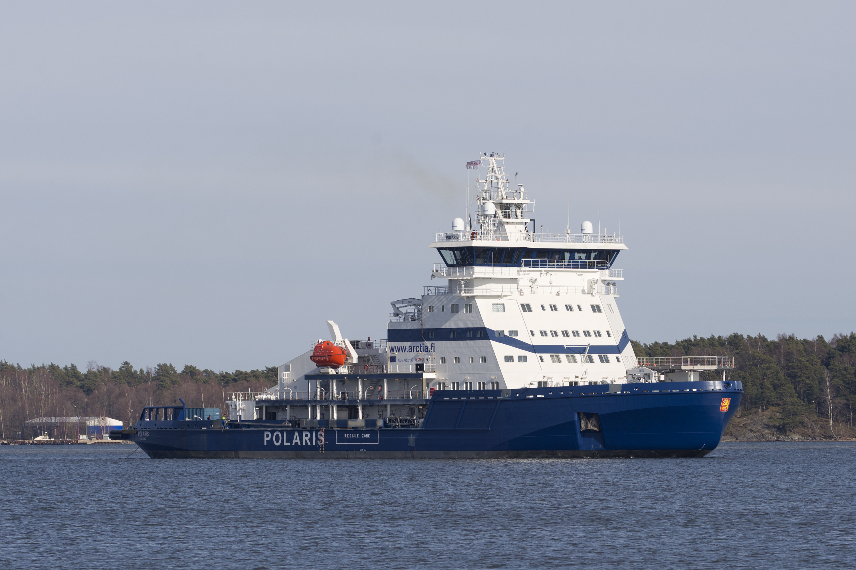 Finnish icebreaker Polaris undergoing bollard pull tests during sea trials off Helsinki on 25 April 2016.